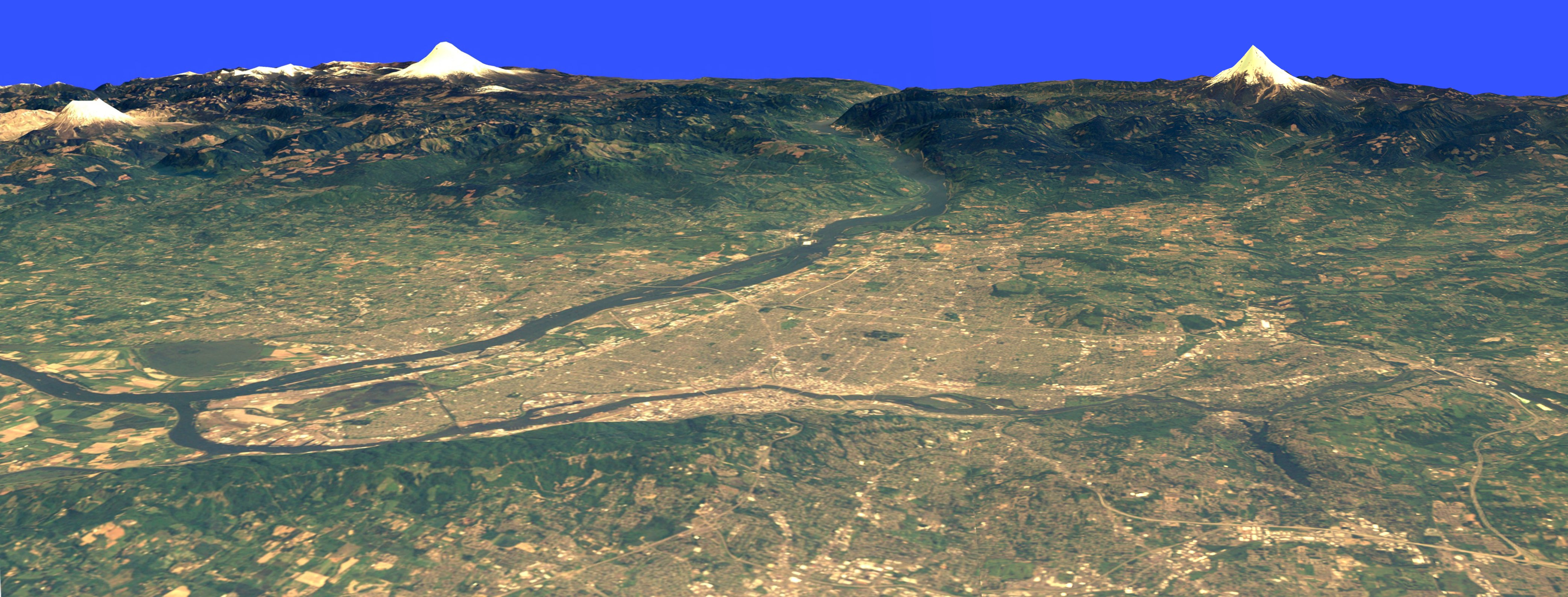 View of Portland and (left to right) : Mt Saint Helens, Mount Adams, Gorge of Columbia and Mt Hood. Vertical exageration x2